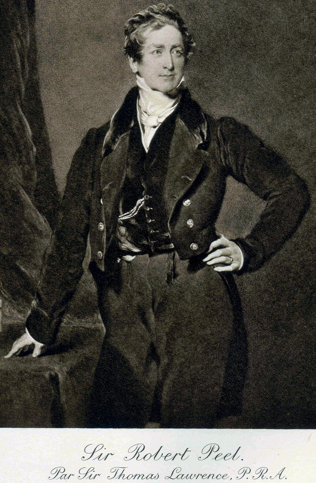 Robert Peel Portrait slightly altered in order to increase technical quality.